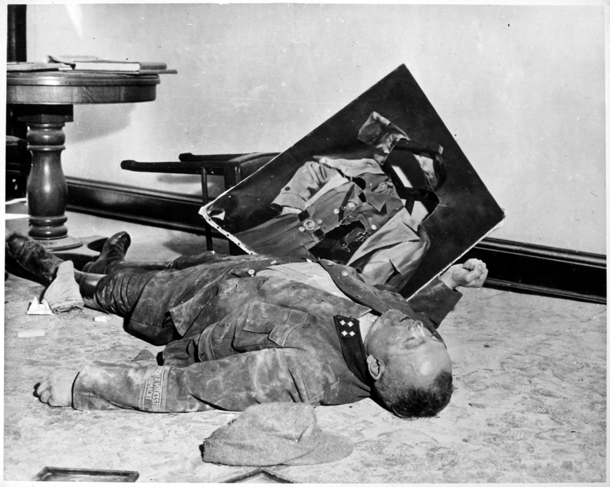 With a torn picture of his Führer beside his clenched fist, a dead major of the Volkssturm (erroneously described as a “Volkssturmgeneral”) Walter Doenicke (* July 27, 1899; † April 19, 1945) lies on the floor of city hall, Leipzig, Germany. He committed suicide rather than face U.S. Army troops who captured the city.